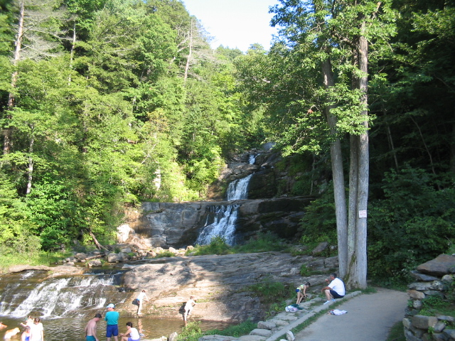 Kent Falls (in the Kent Falls State Park, Kent, Connecticut). Fall 2004. Photo by Richard Frantz Jr. I release this image to Public Domain.